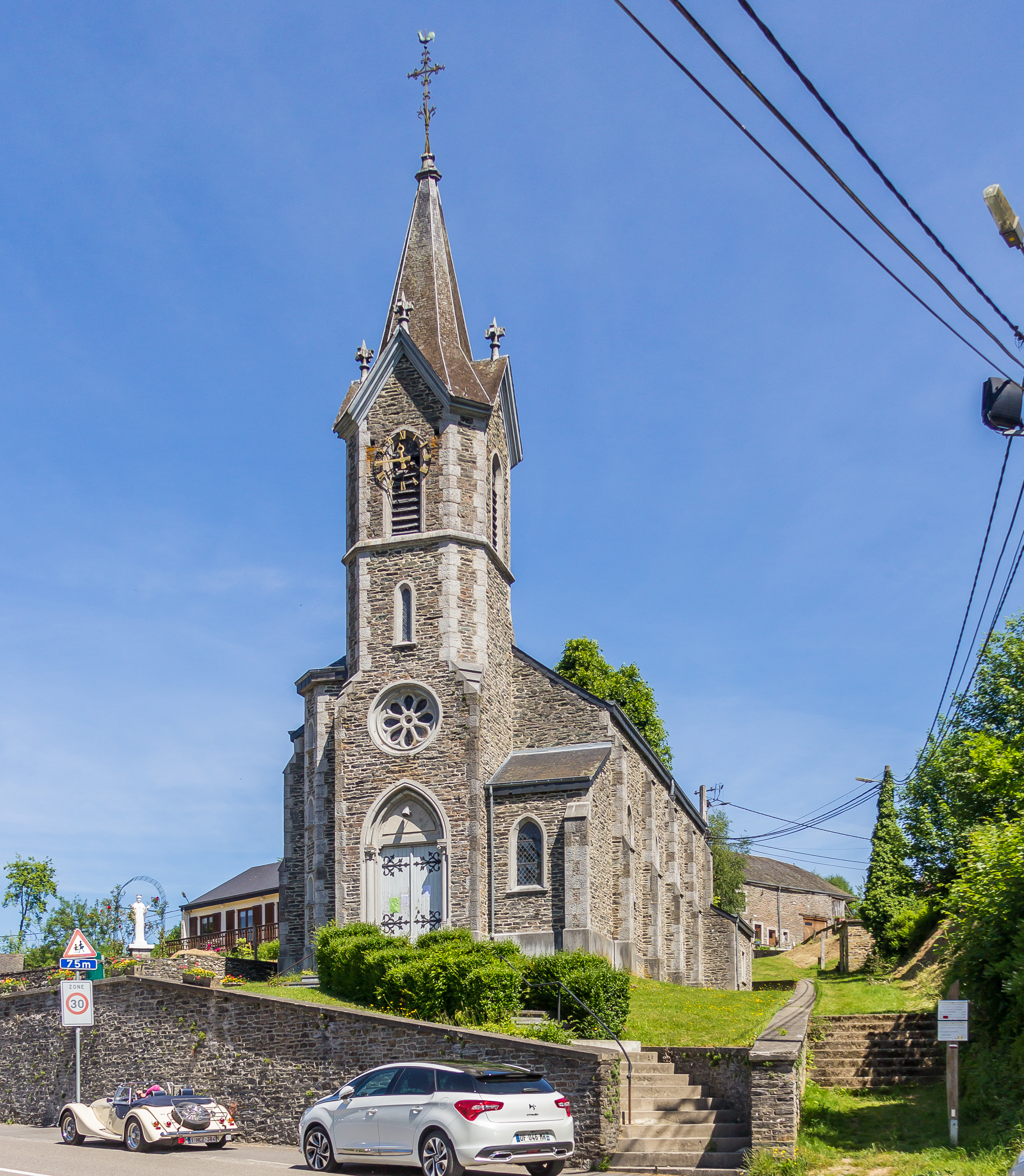 église Saint-Fiacre, Membre, Belgium